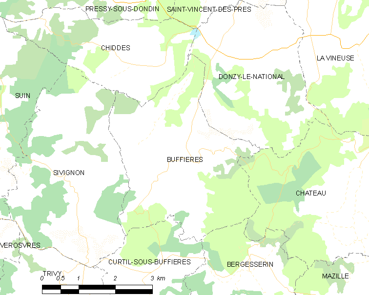 Map of French municipality